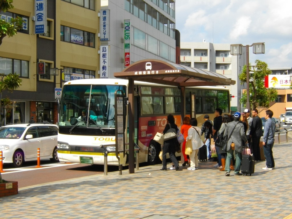 The Crest Hotel Kashiwa Bus Stop